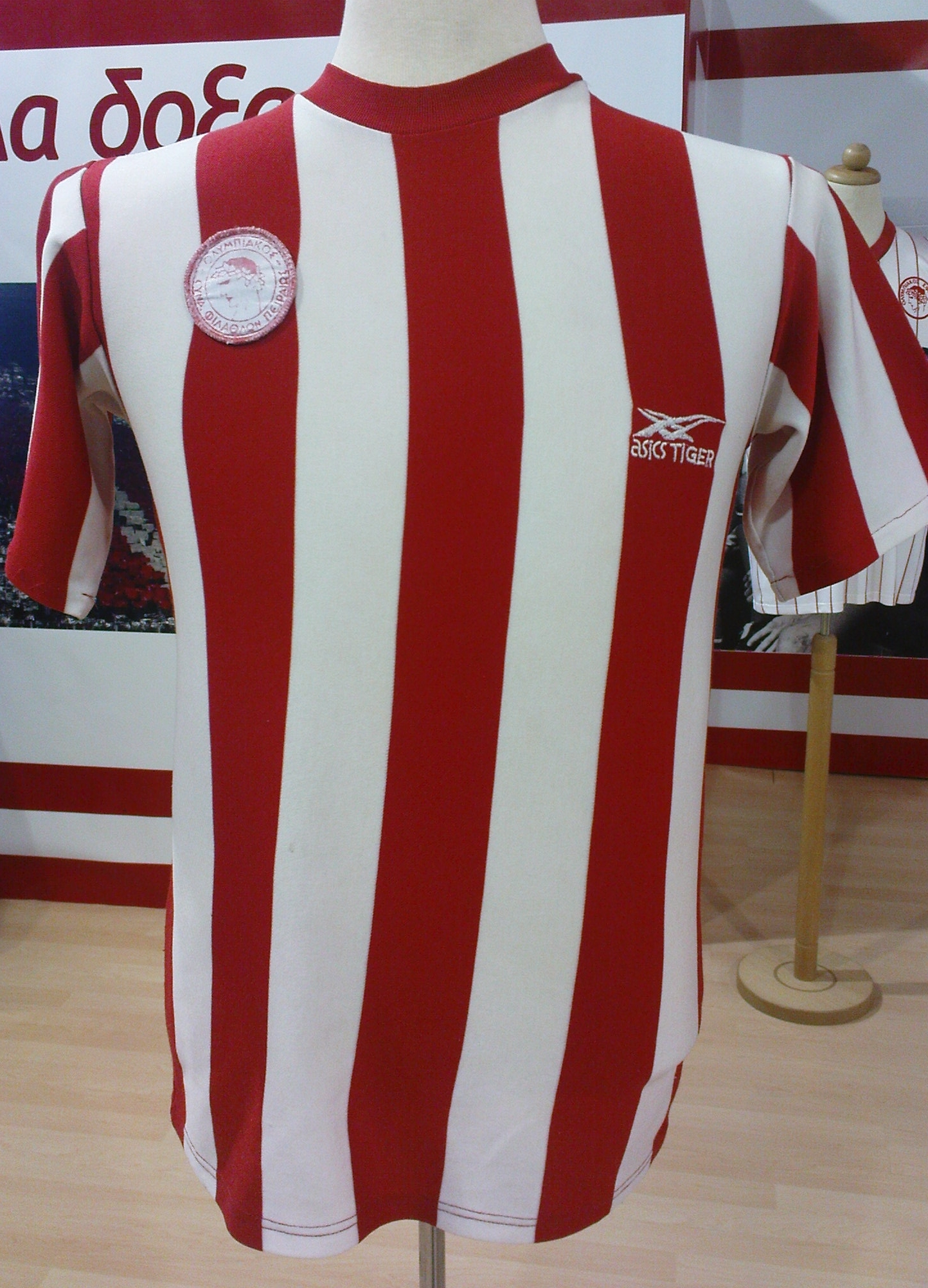 Olympiacos retro shirt, Athens Sport Show 2010